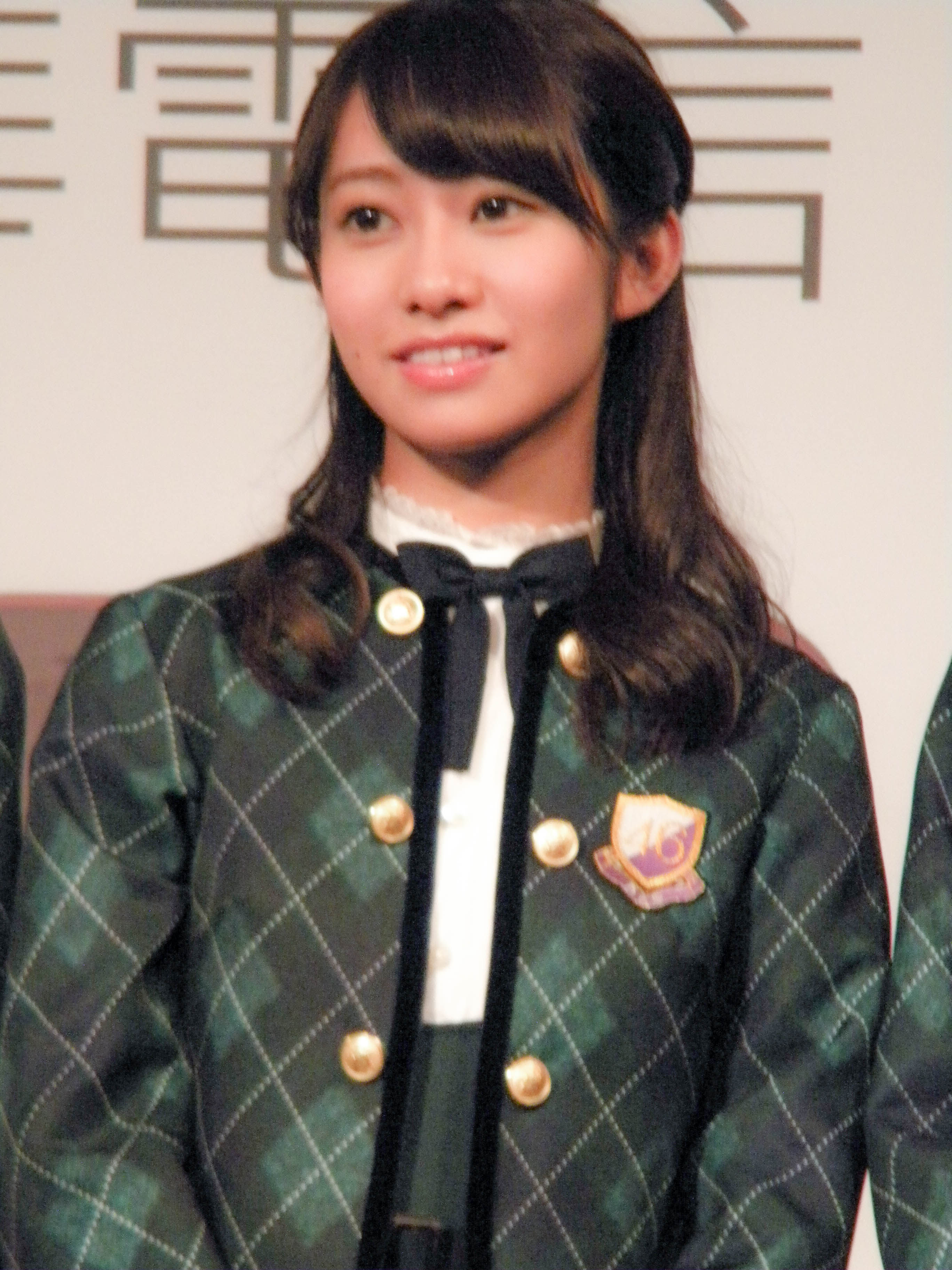 Reika Sakurai (Nogizaka46) on HTC and Chunghwa Telecom HTC Butterfly 2 joint marketing event at Taipei, Taiwan.